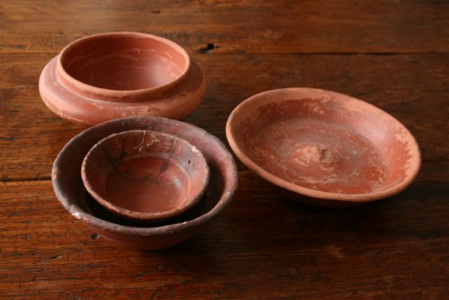 Roman Terracotta excavated in 1944 at Roman villa near Vaesrade